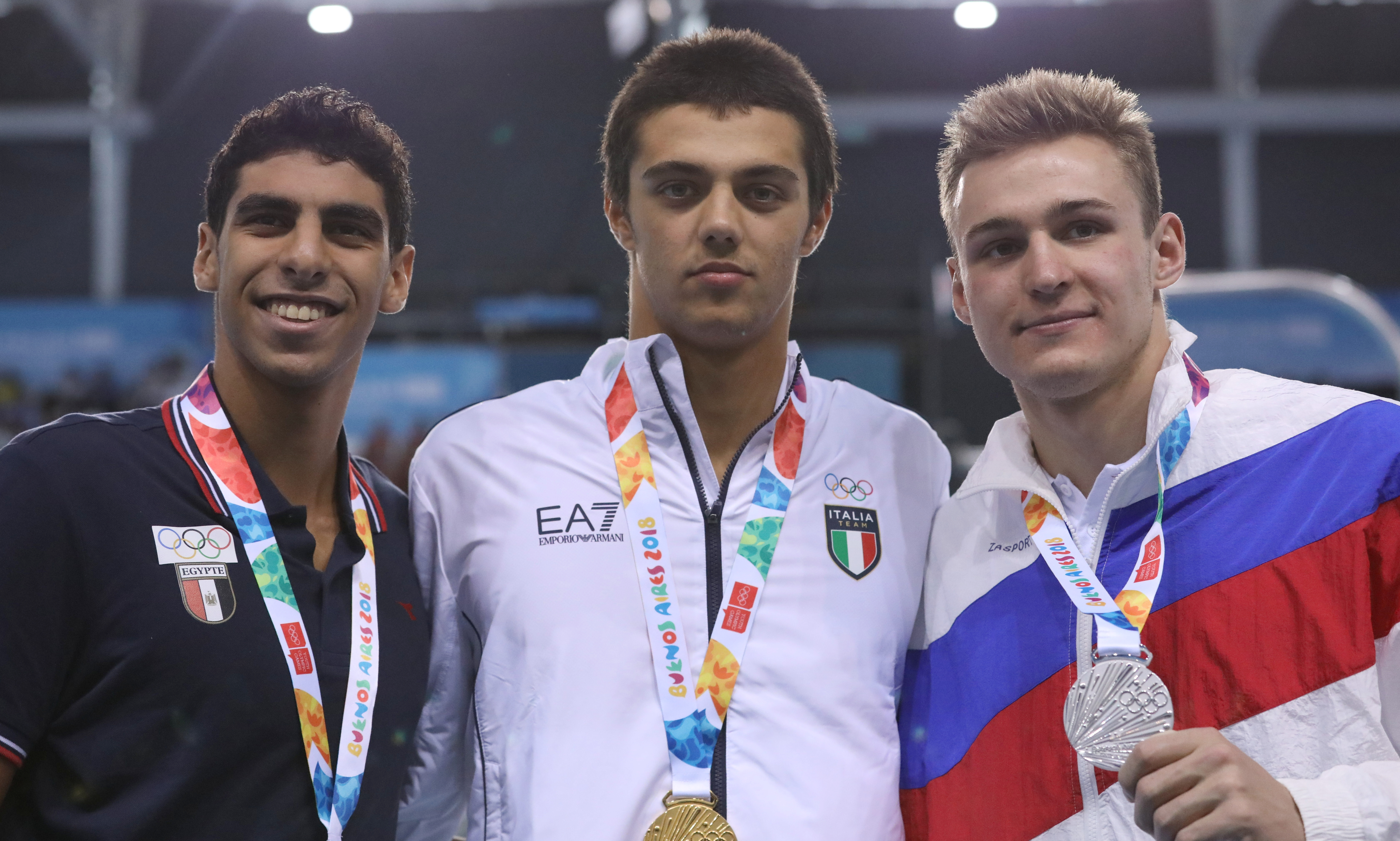 Boys' Swimming, 50 m Freestyle Final at the 2018 Summer Youth Olympics in Buenos Aires at the 10th October 2018